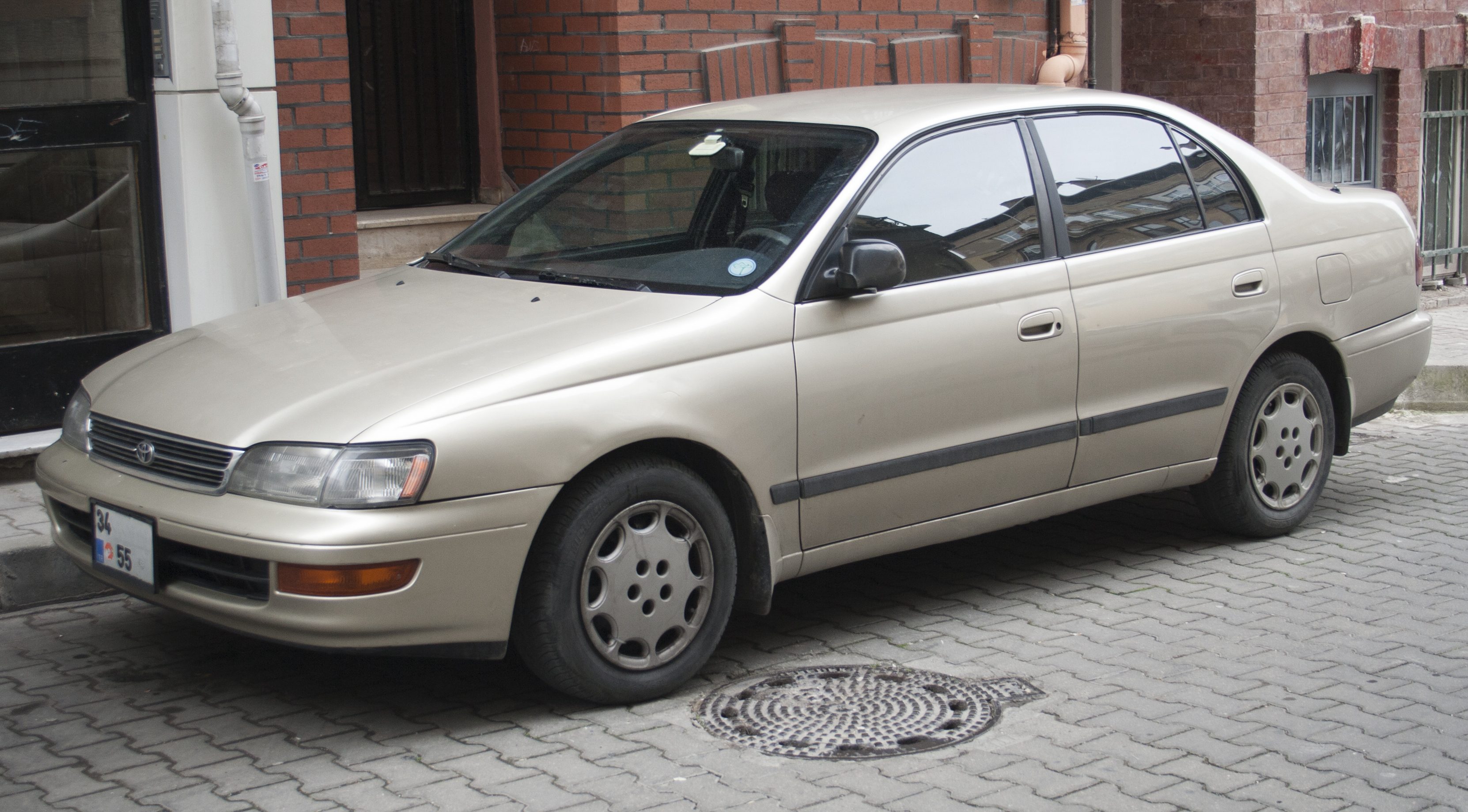 Toyota Corona 2.0 GLi (ST191). Most European markets received this car as the Carina E.